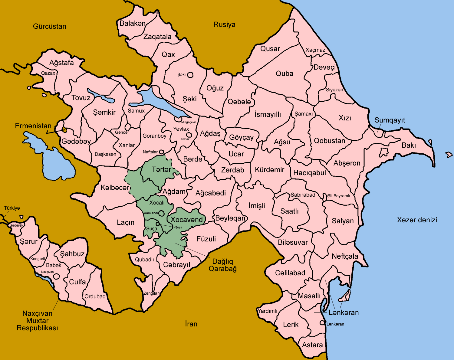 Map of the rayons and other districts of Azerbaijan, named in Azerbaijani, for use for printing or for those who don't want to use the numbered map. Azərbaycan rayonlar Made by User:Golbez.